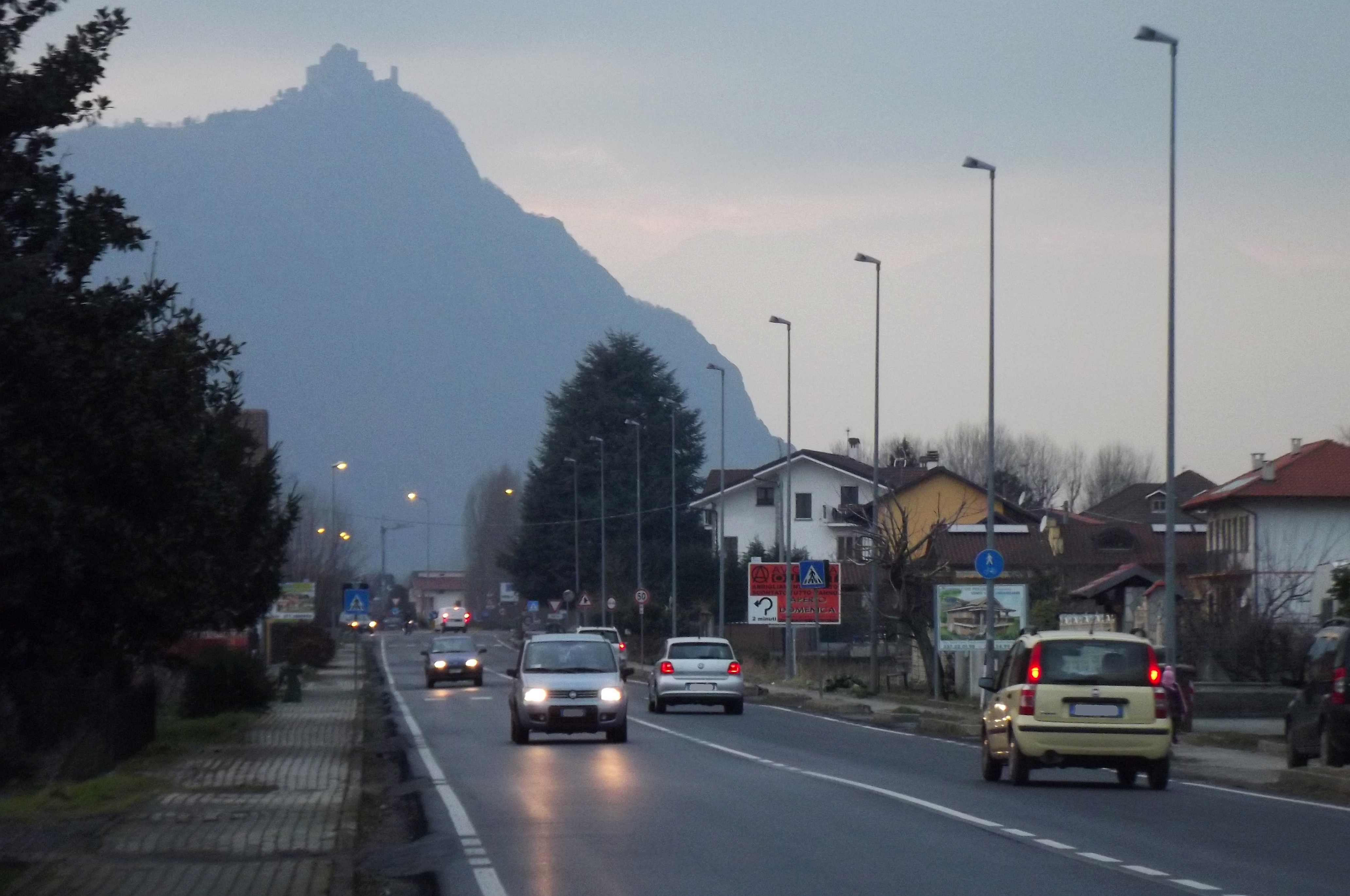 Former national road nr. 24 in Drubiaglio (Avigliana, TO, Italt); in the background mount Pirchiriano and Sacra di San Michele